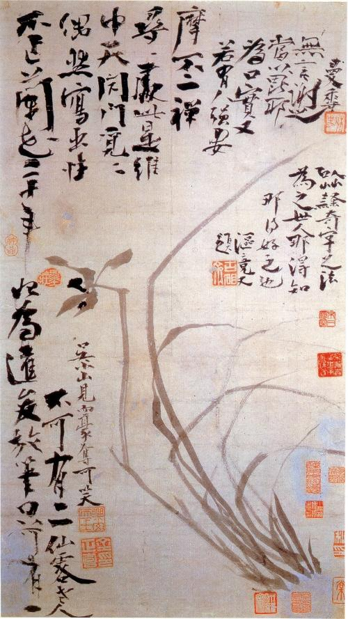 Lights at Seonran, Sumuk, Jeju Island (in exile)